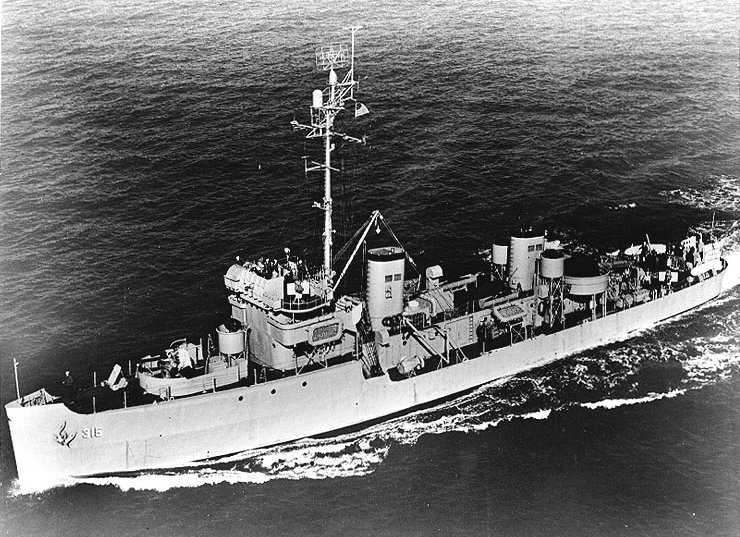 Photo #: NH 96996 USS Chief (AM-315) Underway, soon after recommissioning in 1952. Note that she still wears small hull numbers at her bow. An acoustic "hammer box" is stowed on her main deck, amidships. Official U.S. Navy Photograph, from the collections of the Naval Historical Center.